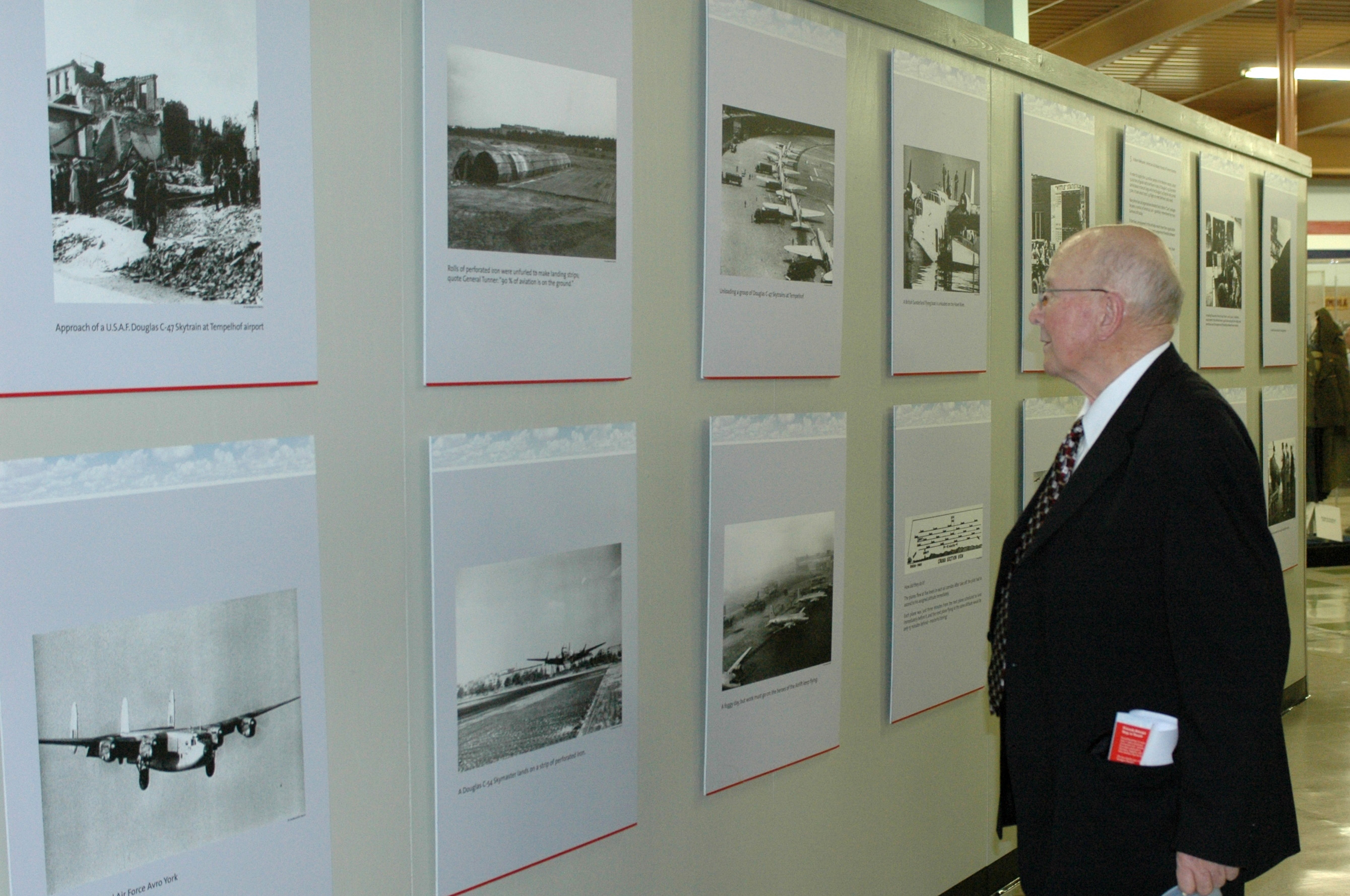 Berlin Airlift pilot browses exhibit at the Jimmy Doolittle Air & Space Museum